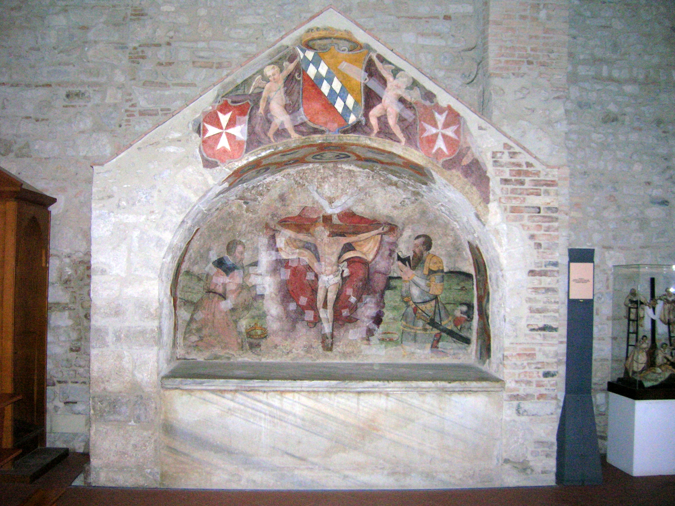 Family grave of the Hauteville, Abbey of the Holy Trinity (SS. Trinità), Venosa. Robert Guiscard (~1015-1085) is buried here.